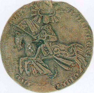 Prince Eric of Sweden (1282) as depicted on his royal seal